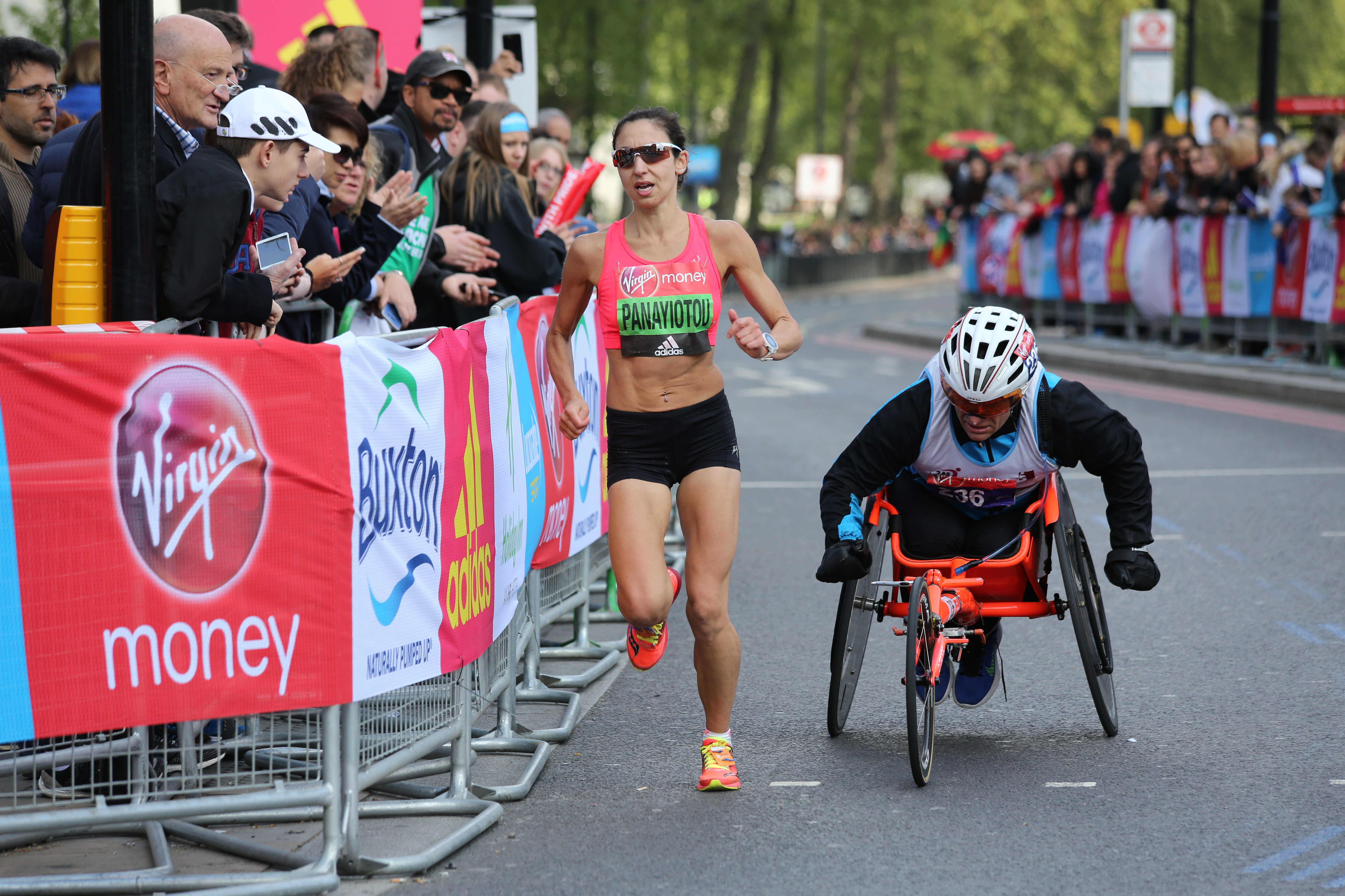 2017 London Marathon – World ParaAthletics Marathon World Cup – Melanie Panayiotou & David Avram